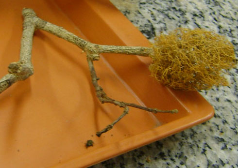 fruit lichen